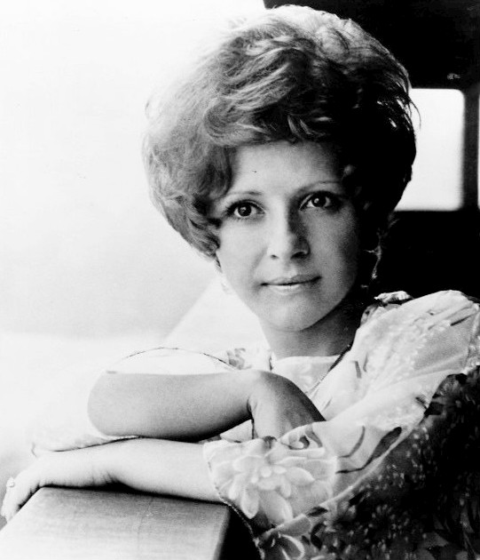 Publicity photo of singer Brenda Lee in 1977.